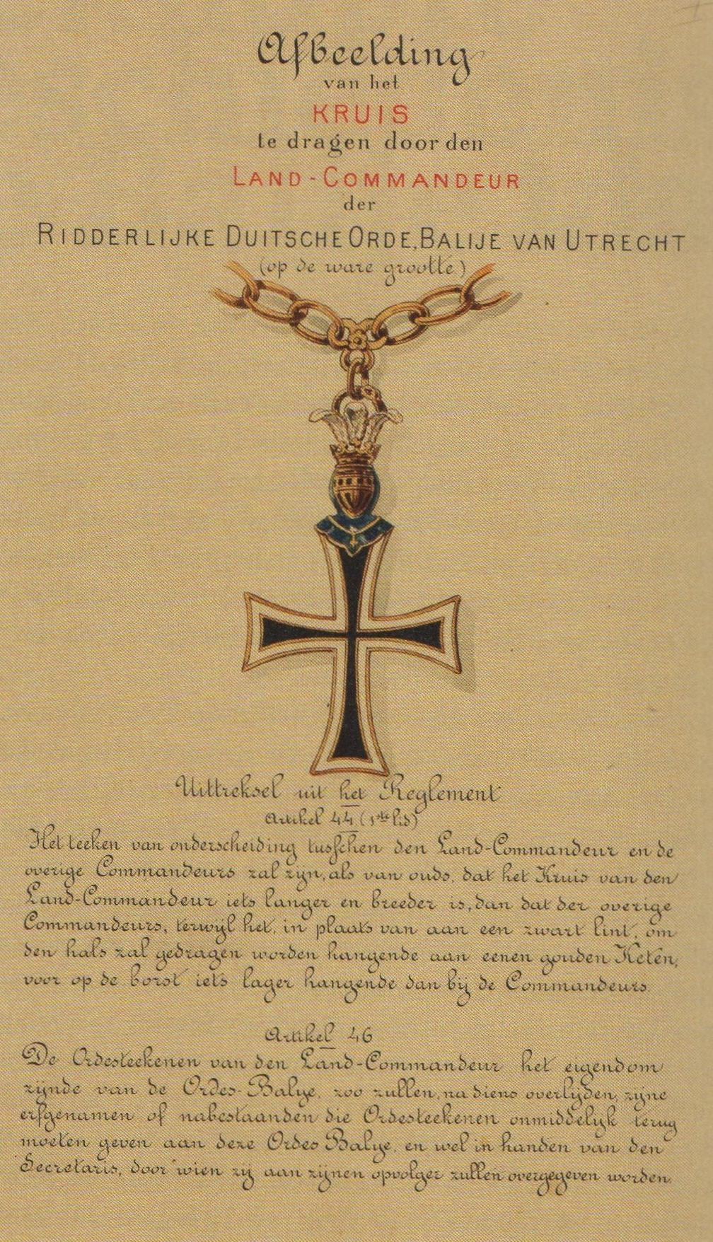 A drawing of the golden collar of the Landcommandeur of the Knightly German Order in de Bailwyck of Utrecht.